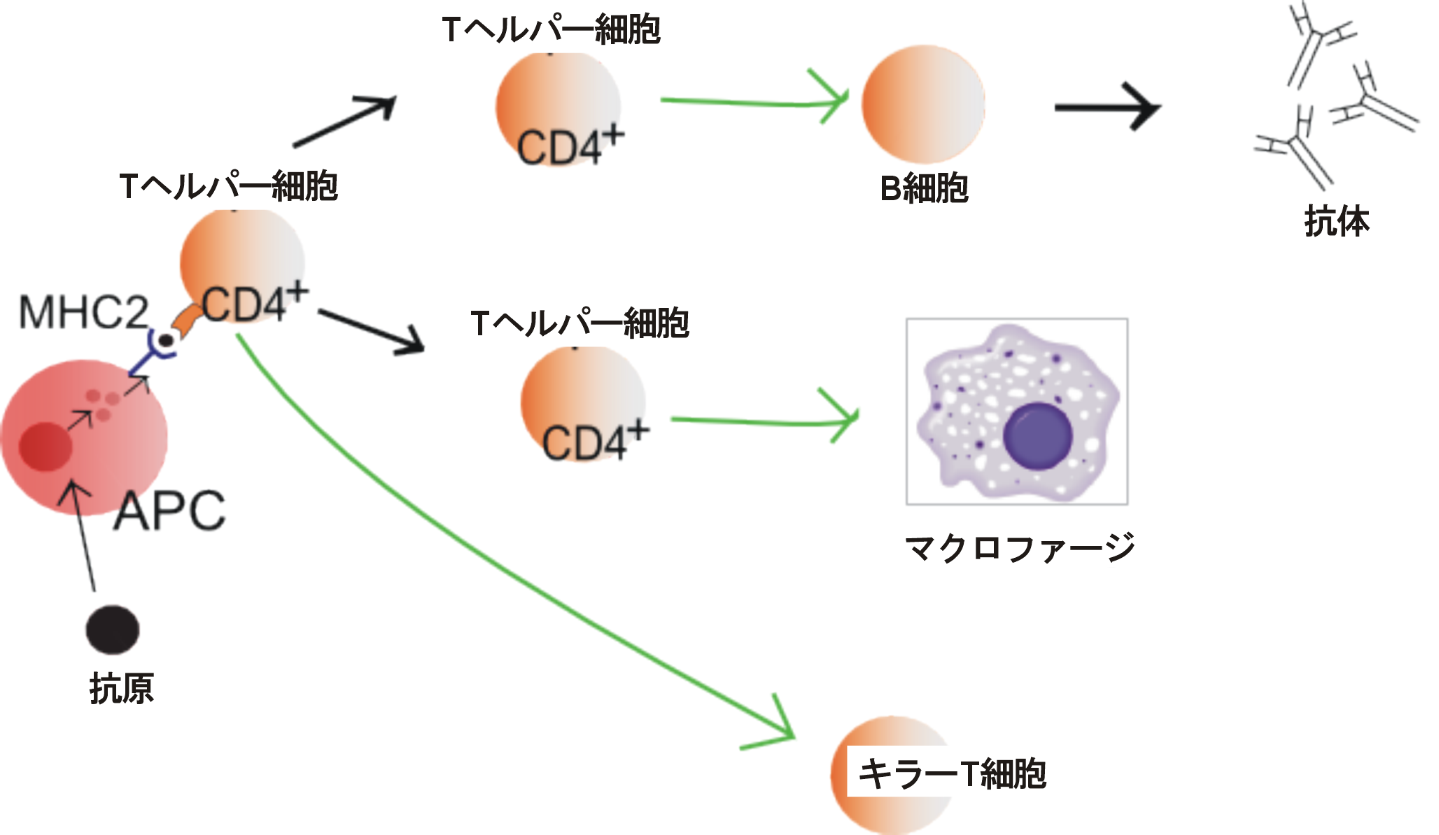 T helper cell function